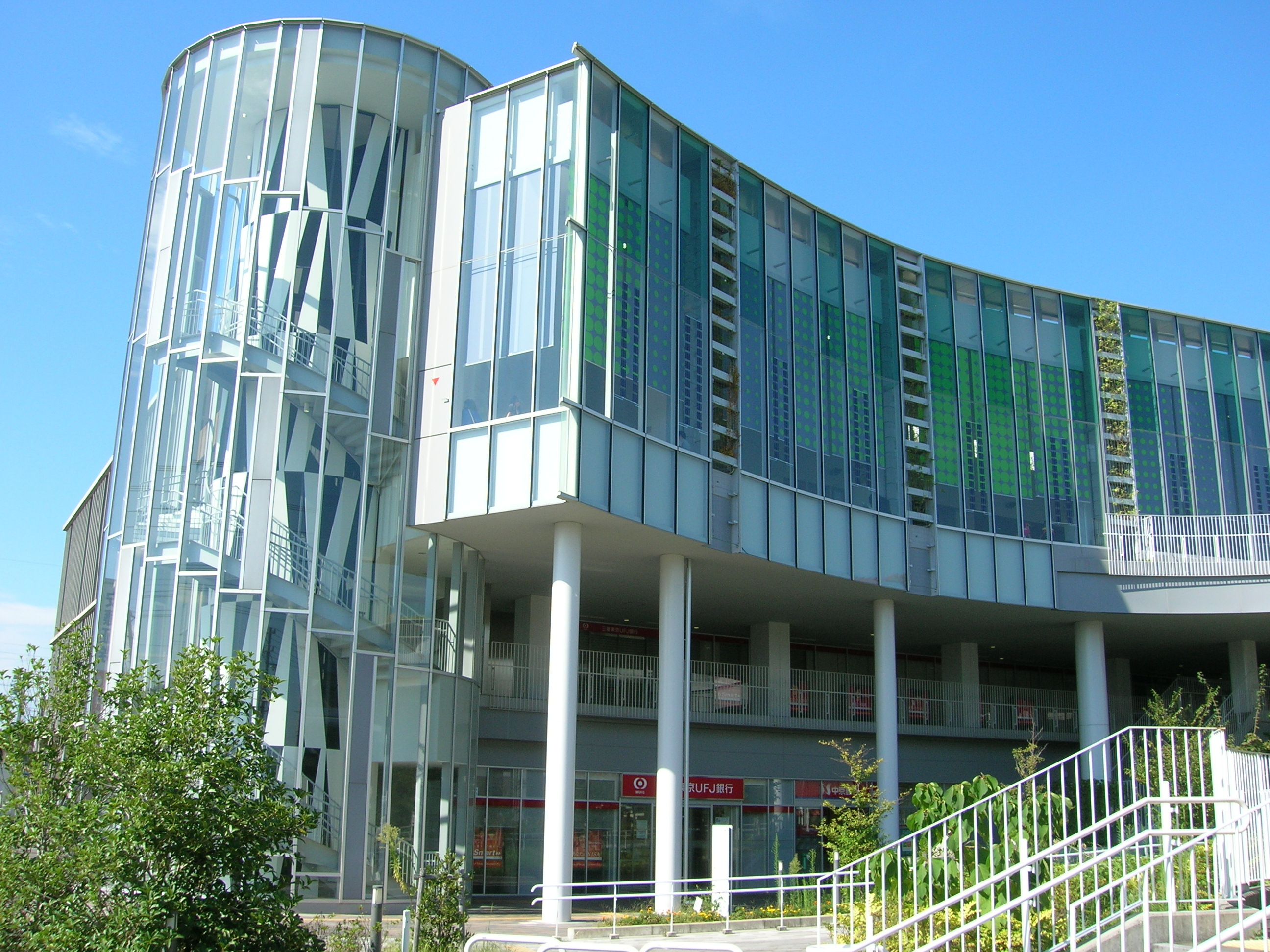 Yumeria Tokushige (Midori-ku_Tokushige branchi office) in Midori-ku, Nagoya city, Aichi Prefecture, Japan.